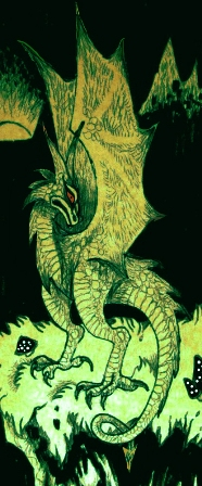 A Wyvern rappresentation.